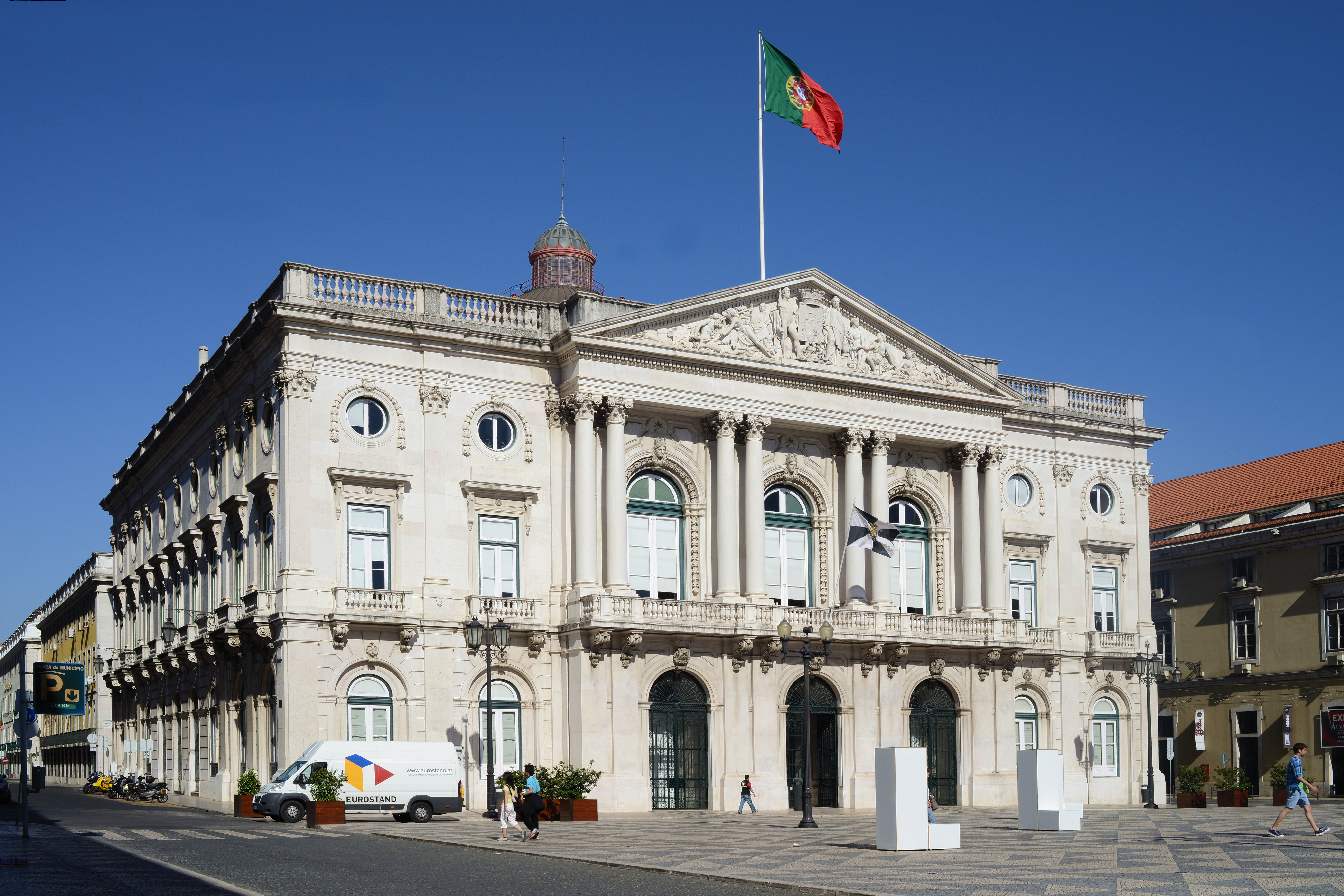 Câmara Municipal de Lisboa (Lisbon City Hall)